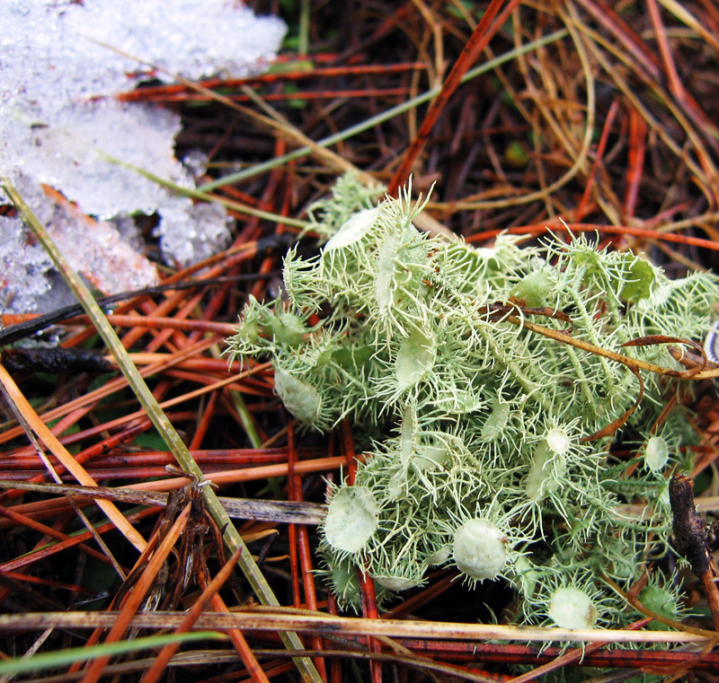 fruticose lichen - Usnea genus